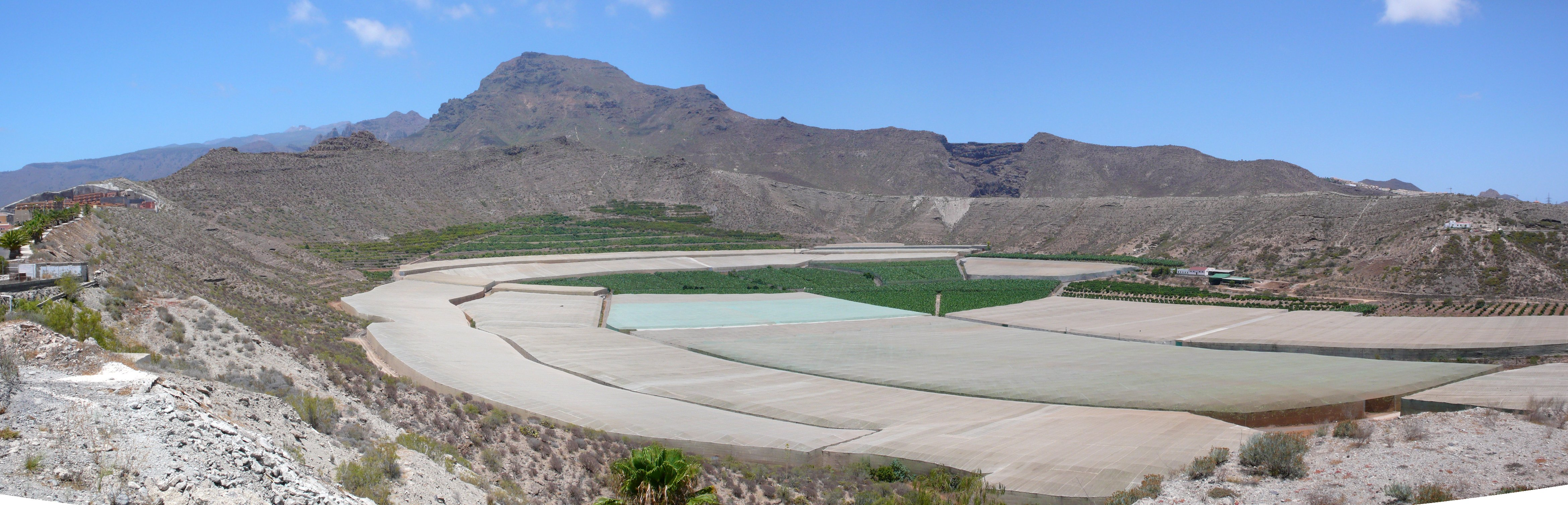 Caldera del Rey, Tenerife.